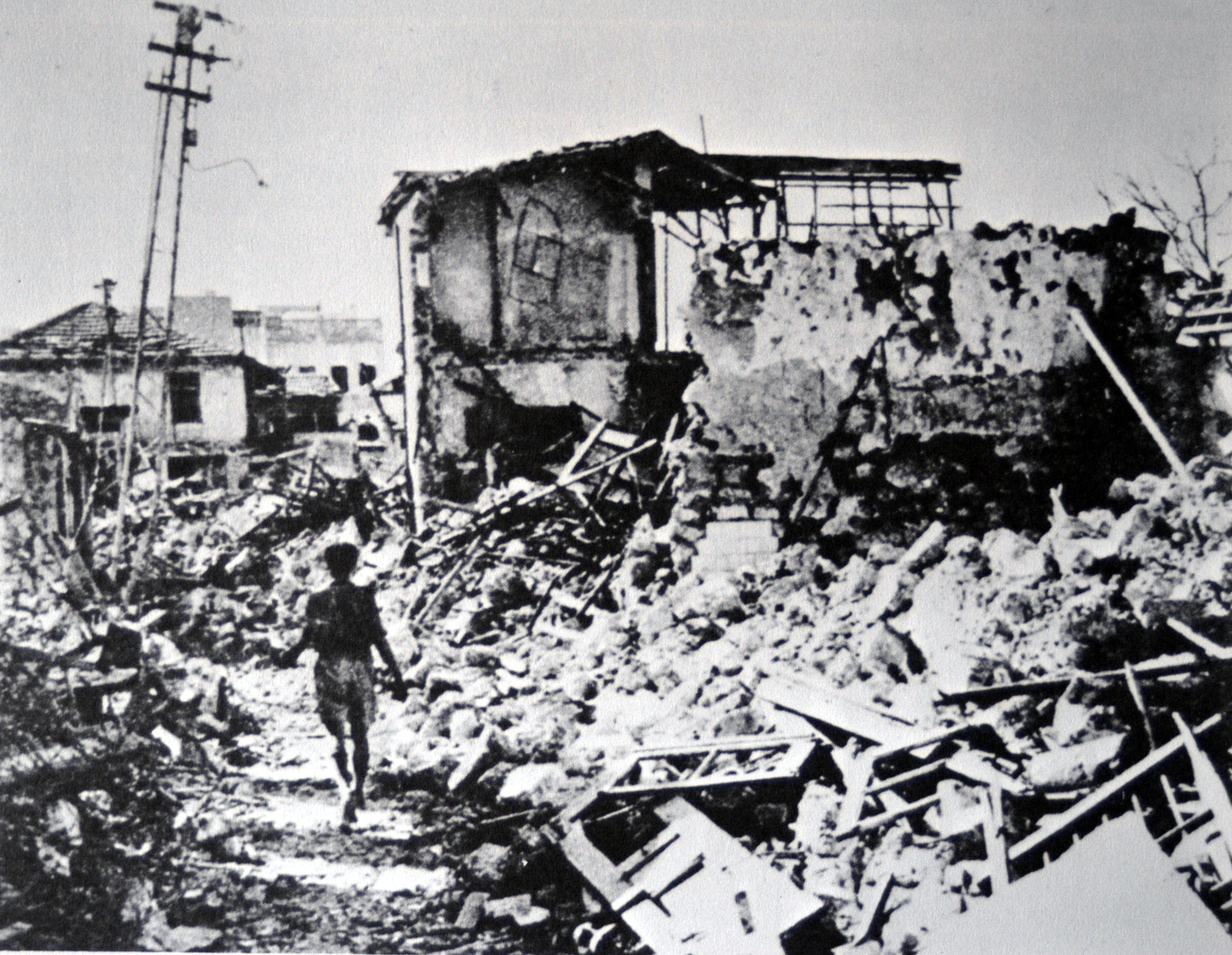 Ruins of the Manshiyeh quarter.